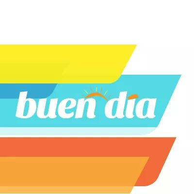 Logo del programa Buen Día, de su página de facebook